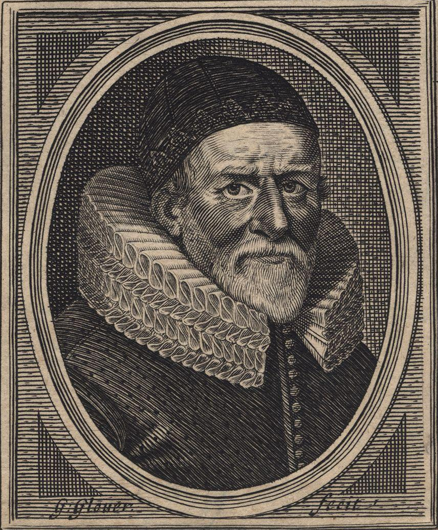 Detail of John Woodall from a frontispiece by George Glover (floruit 1650), published 1639.